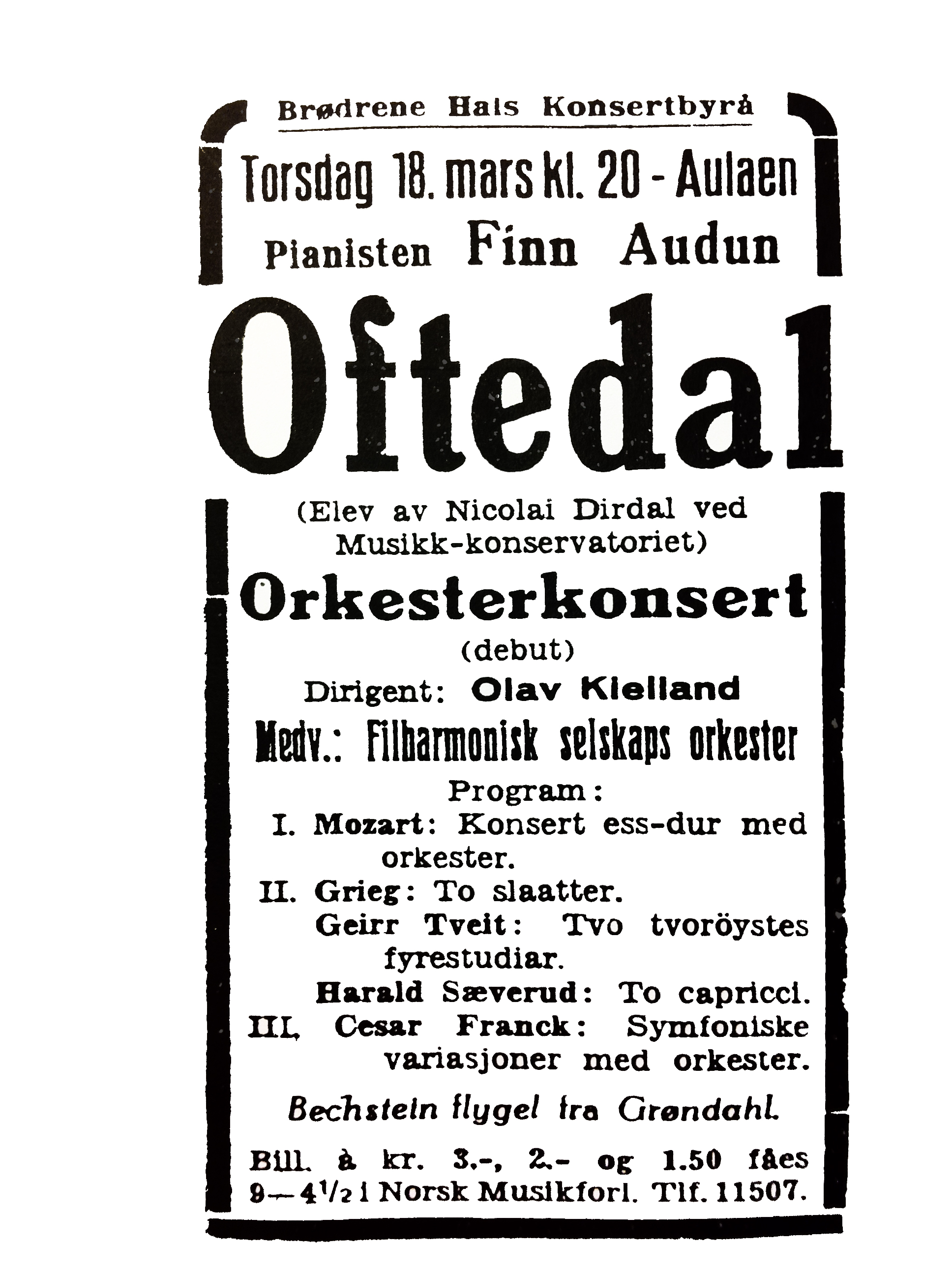 Newspaper ad for the Norwegian (conductor and) pianist Finn Audun Oftedal's debut concerto